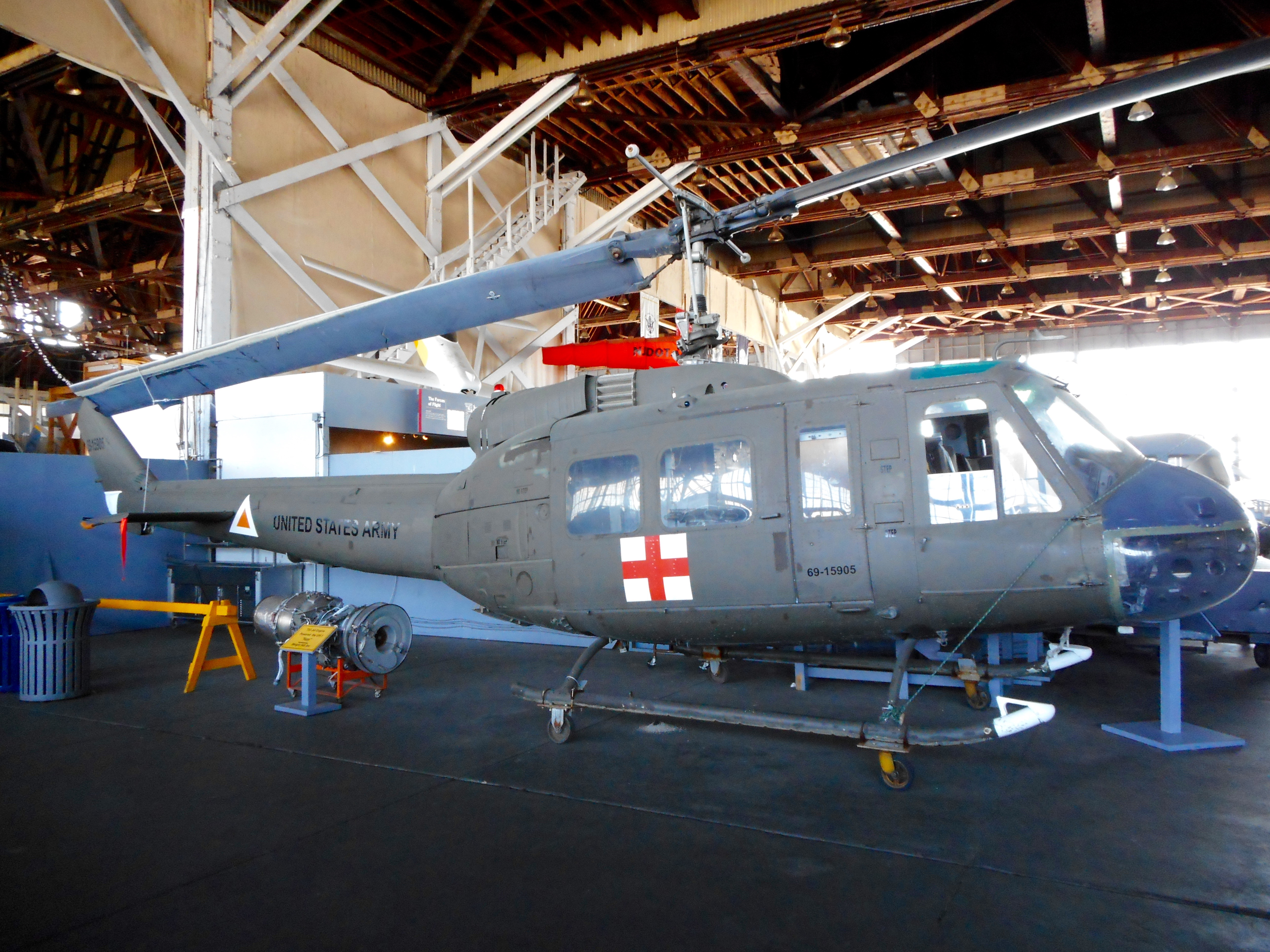 Bell UH-1 at Naval Air Station Wildwood museum in Rio Grande, New Jersey